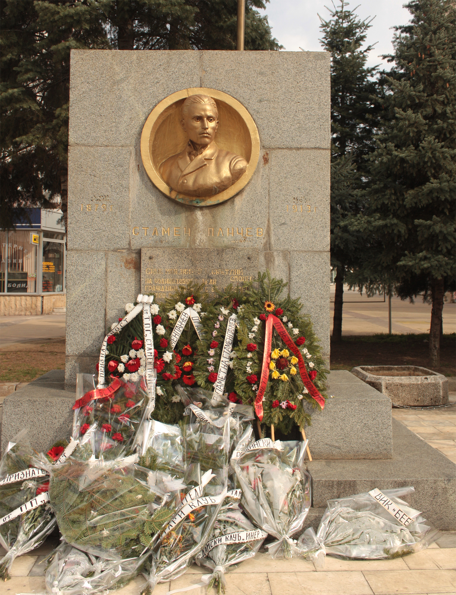 Stamen Panchev Memorial in Botevgrad, Bulgaria